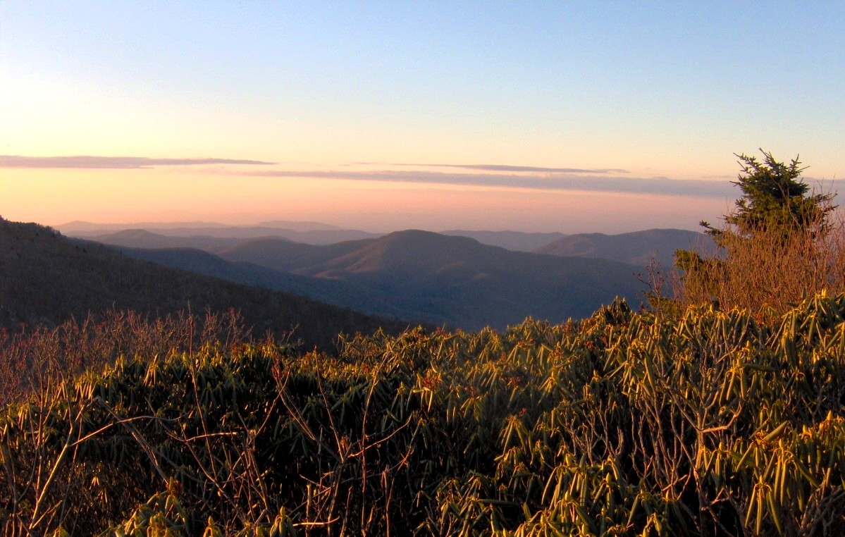 Looking north from Jane Bald, in the Roan Highlands.